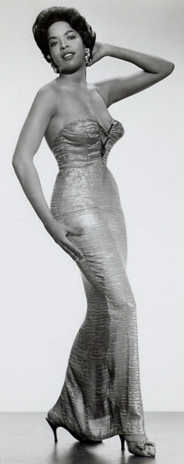 Publicity photo of Della Reese.